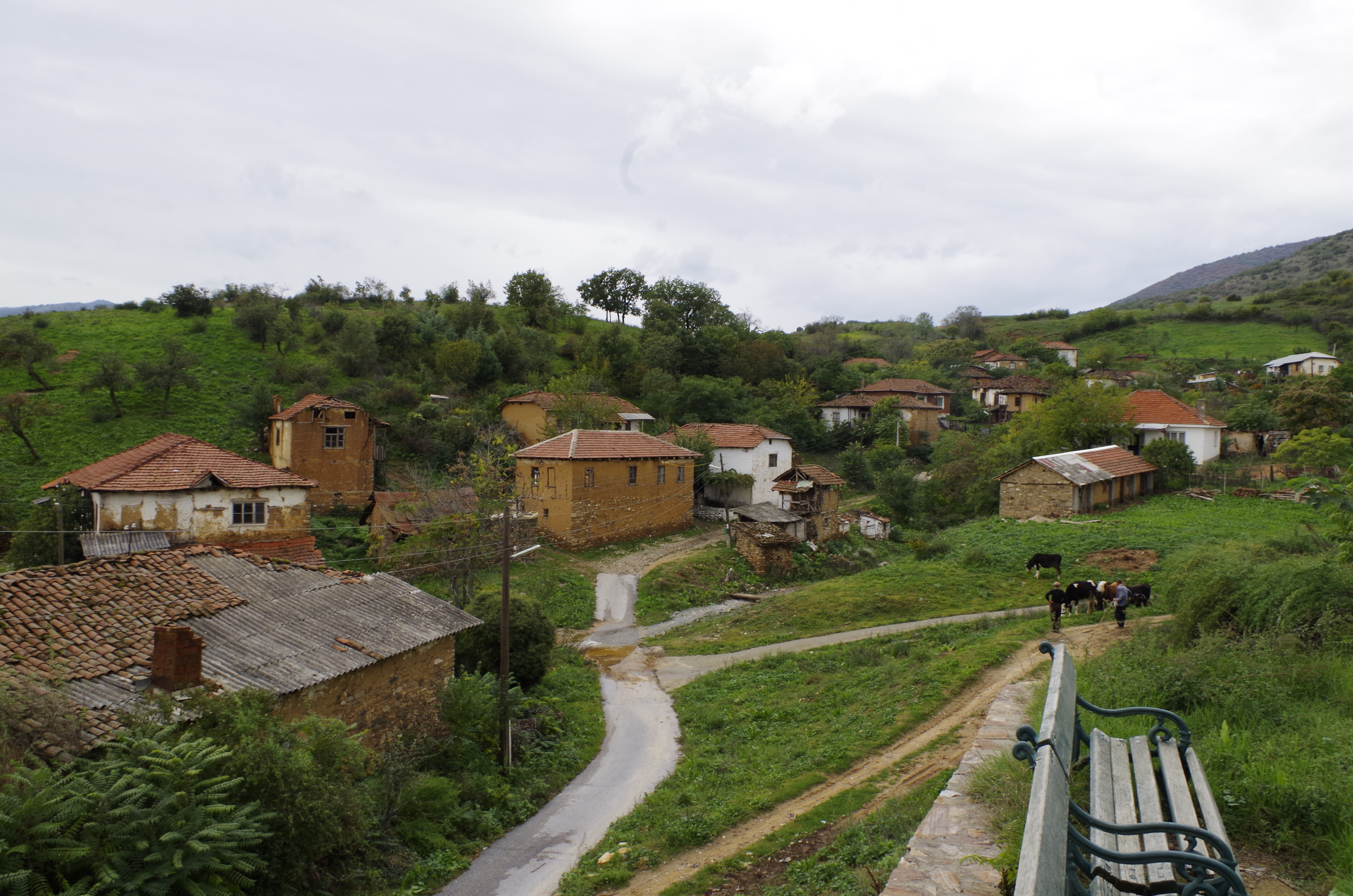 Village of Martolci in Čaška Municipality, Macedonia